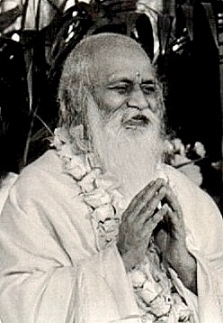 Maharishi Mahesh Yogi arriving in Maastricht to meet World Peace Assembly Course Participants